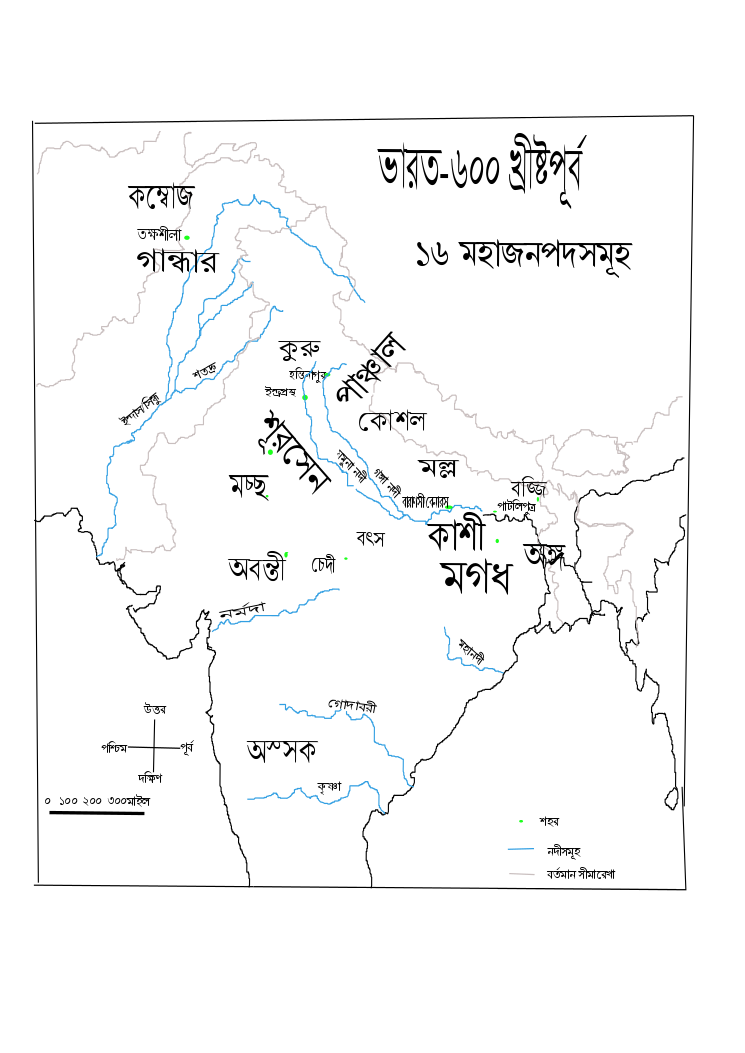 Mahajanapada